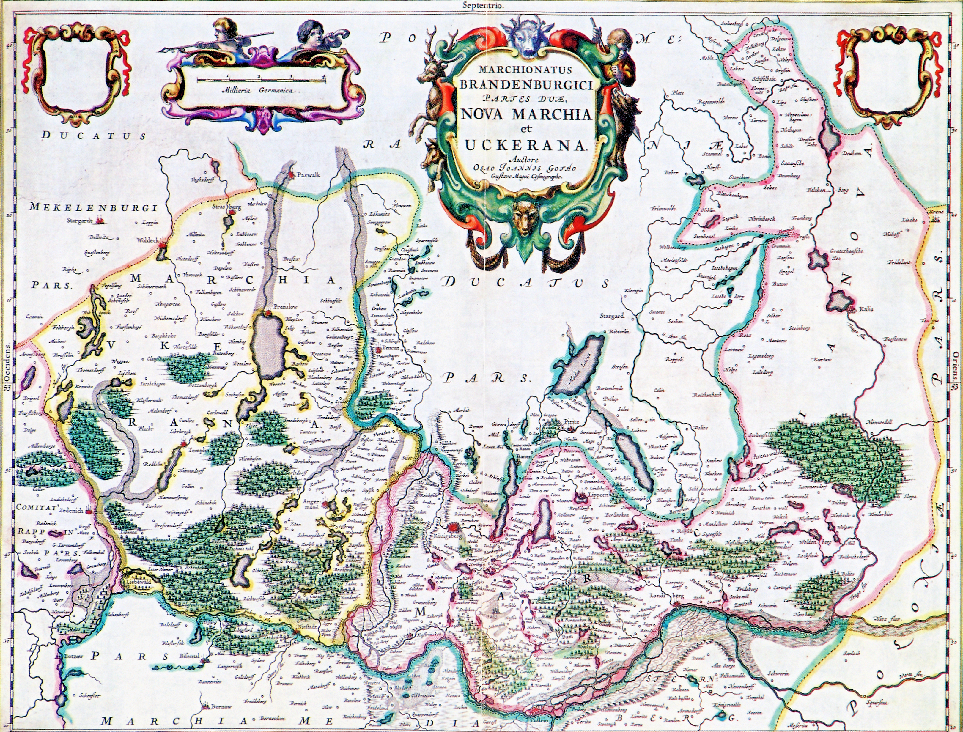 Map of Neumark and Uckermark from Joannes Blaeu's "Atlas Maior sive Cosmographia Blaviana" 1662